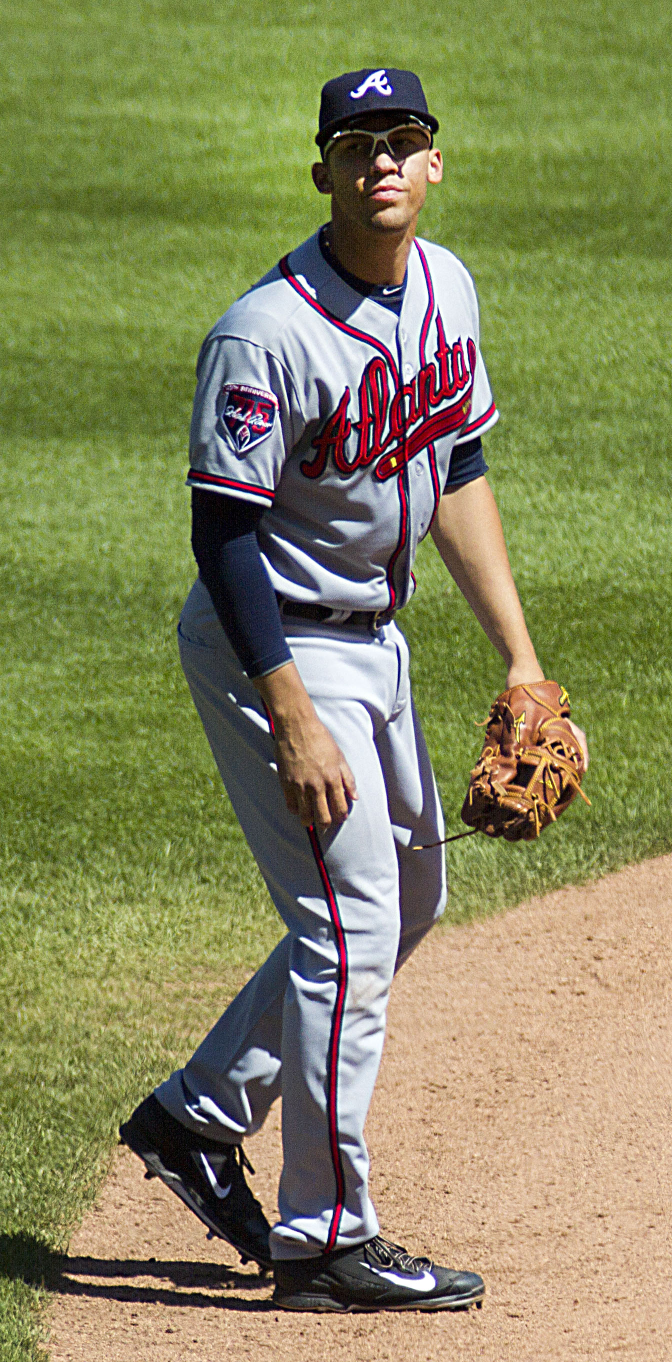 Andrelton Simmons shortstop Atlanta Braves 2014